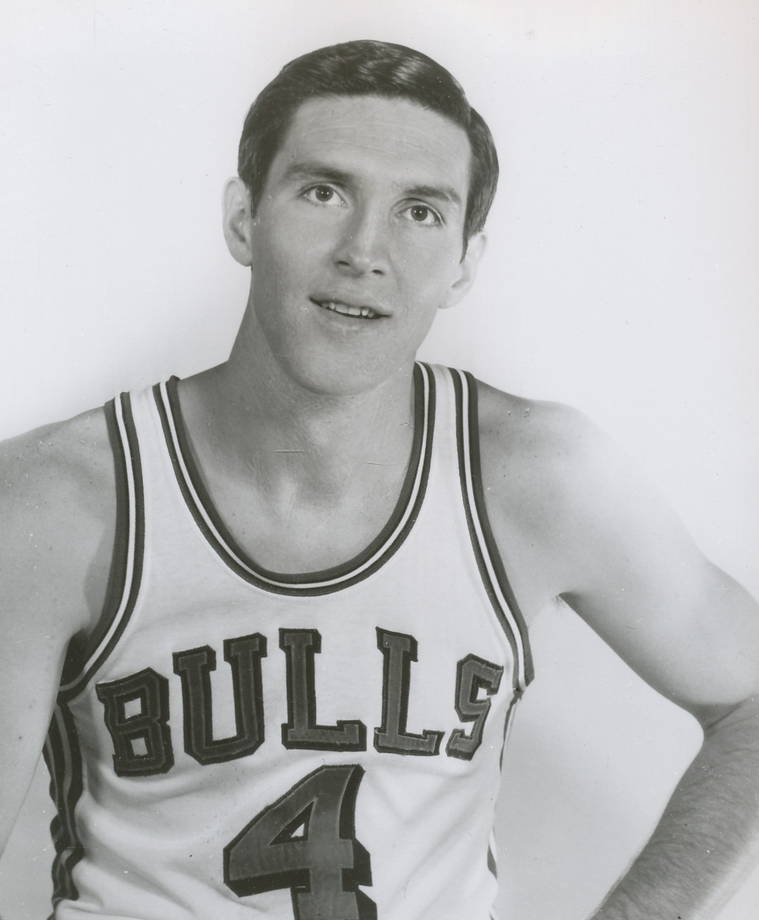 Chicago Bulls publicity photo of basketball player Jerry Sloan published in 1969